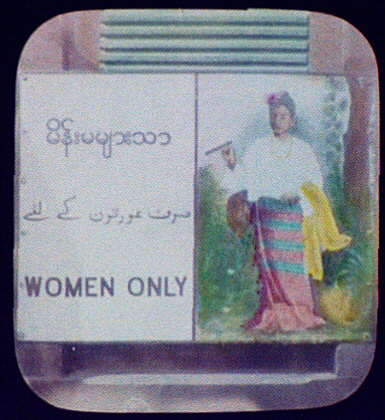 Title: Illustrated sign on railway coach - "Women only" Physical description: 1 slide : lantern, hand colored ; 3.25 x 4 in. Notes: Published in Harper's Weekly, 1895, p. 1120; Forms part of: Jackson, William Henry, 1843-1942. World's Transportation Commission photograph collection (Library of Congress).; Gift; William P. Meeker; 1971.